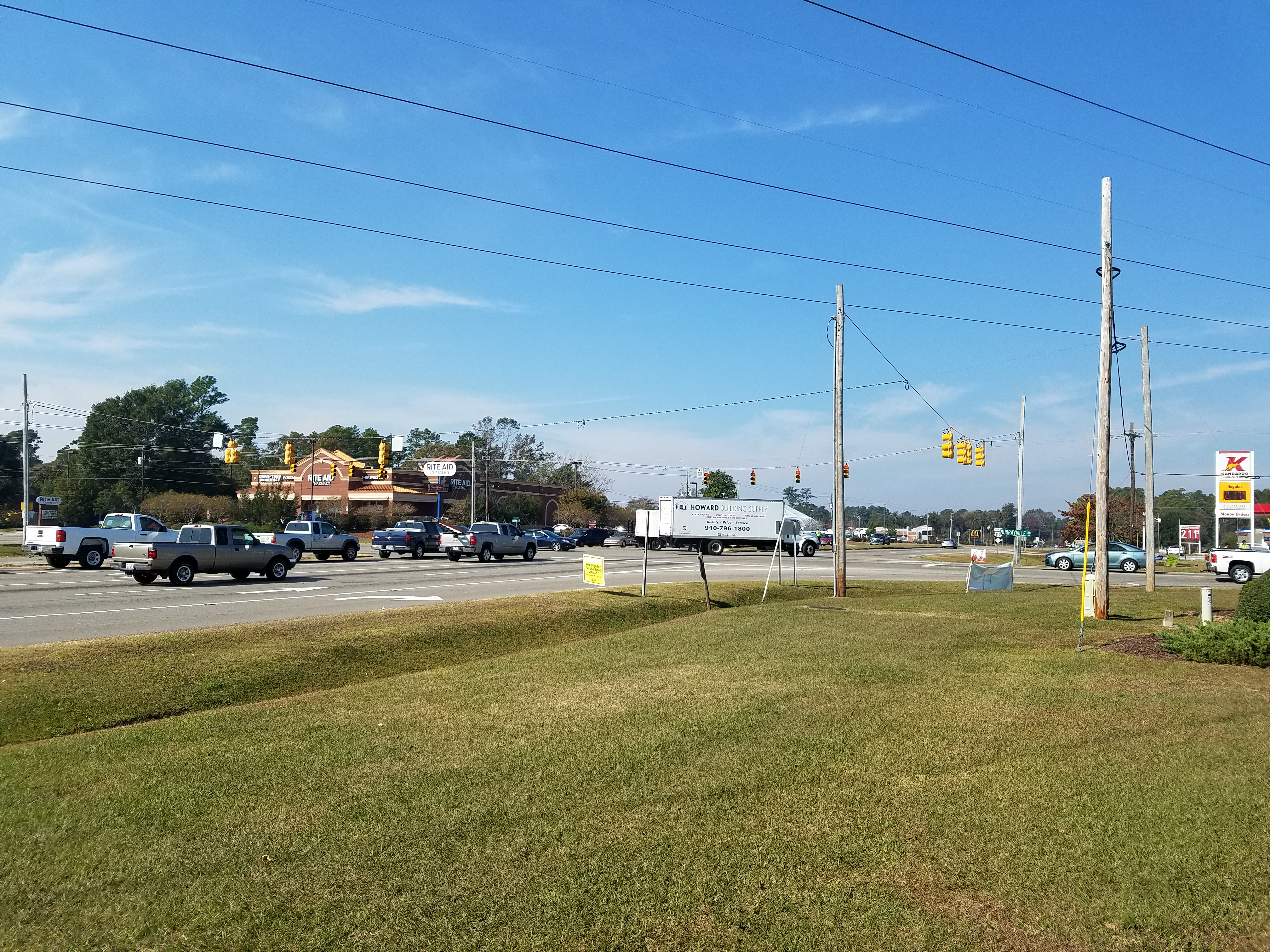 Central junction and town center in Murrayville, North Carolina.